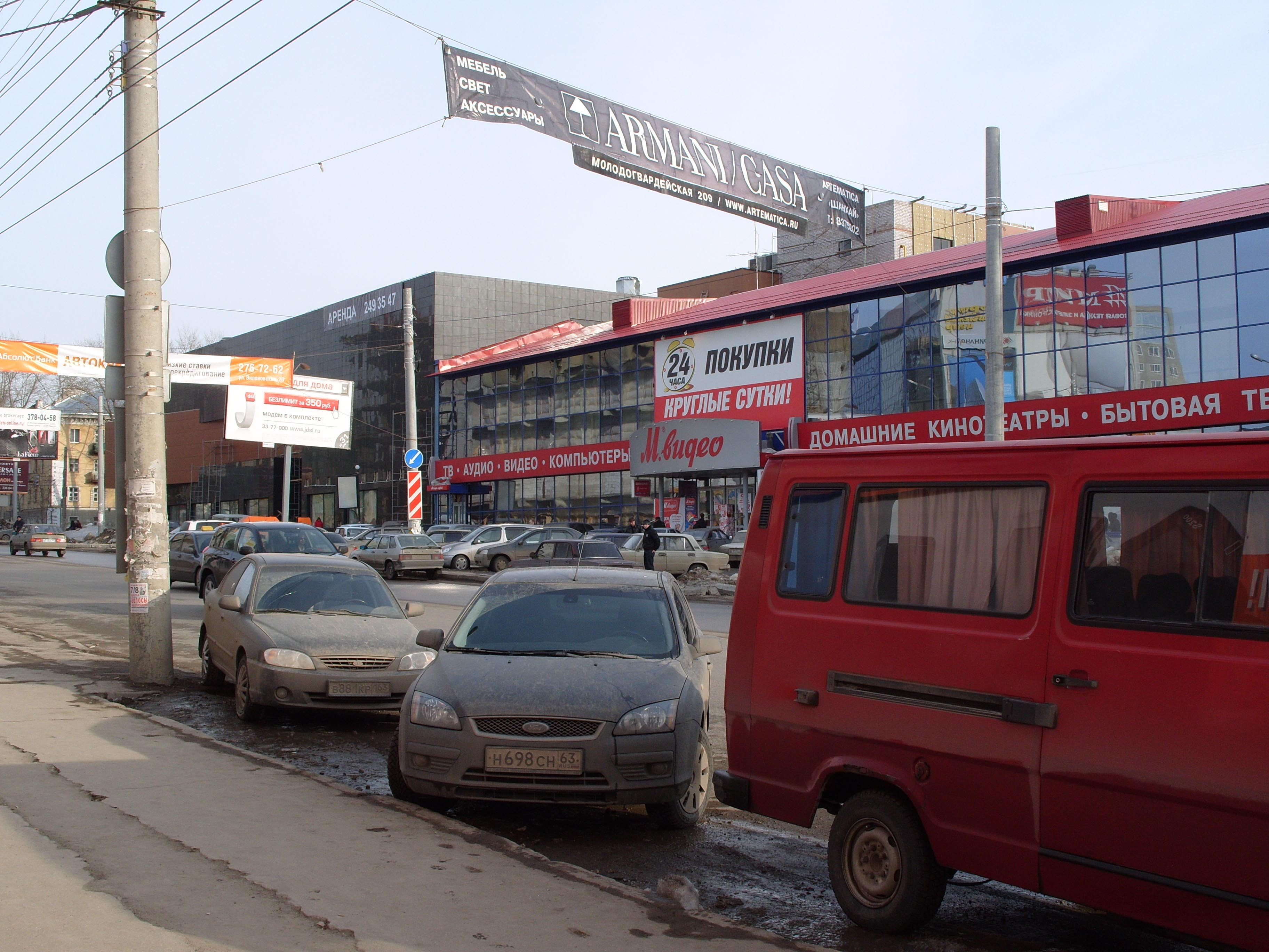 Moscow highway in Samara